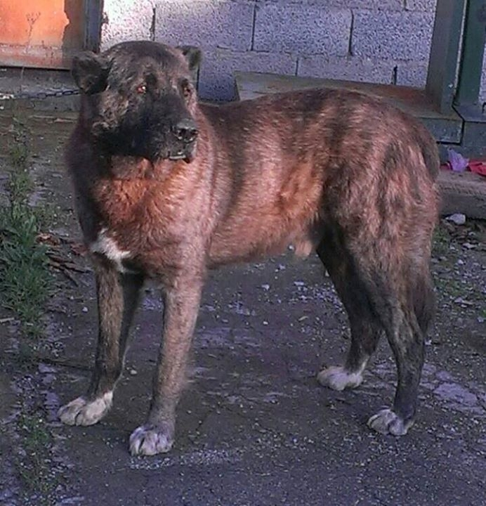 Molossus dog in Albania